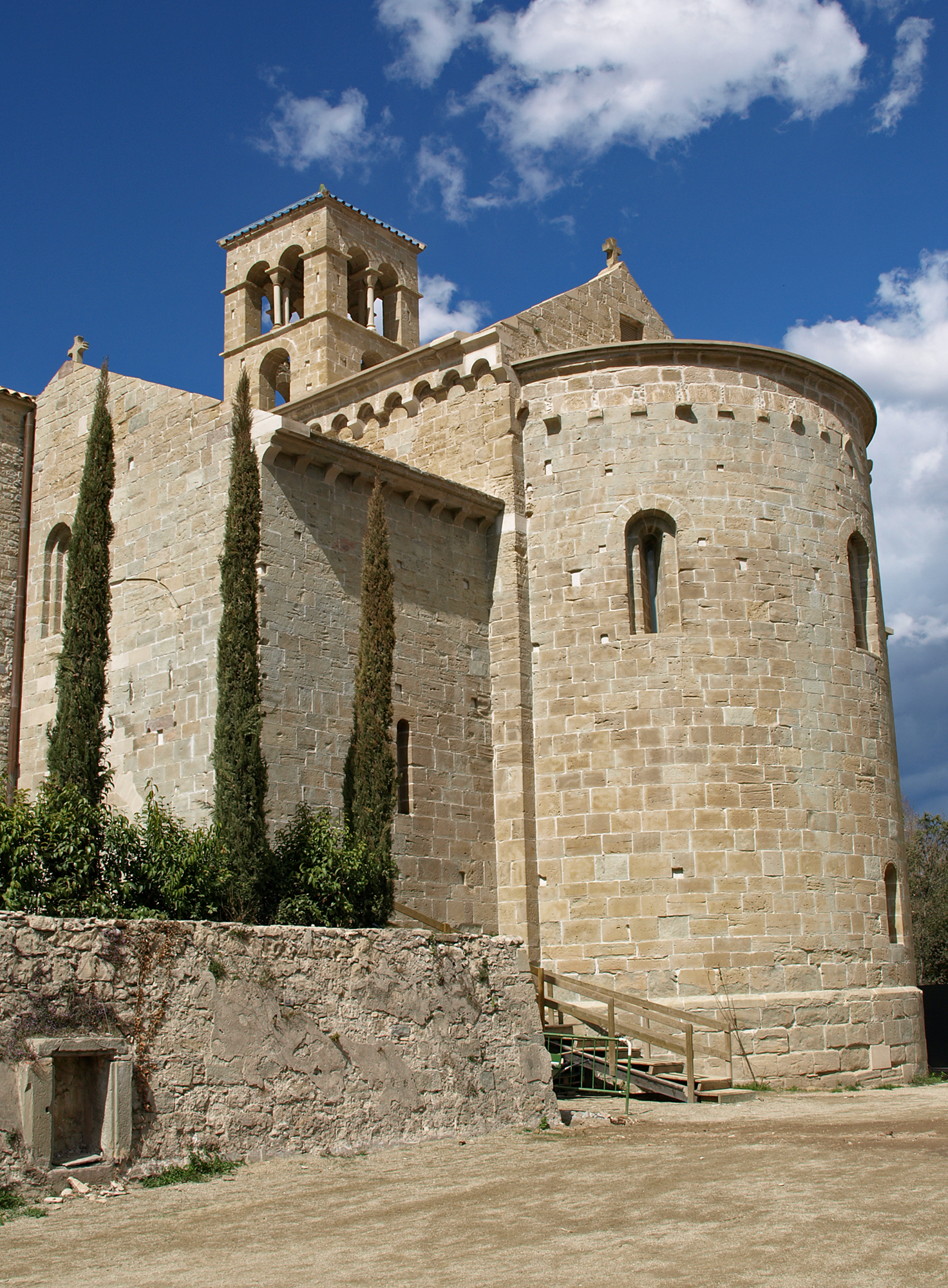 Monastery of Sant Benet de Bages (Bages, España)